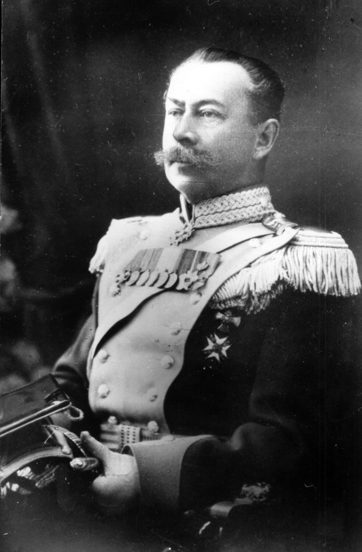 The Tver cavalry school director - Kuchin Dmitriy Alekseevich